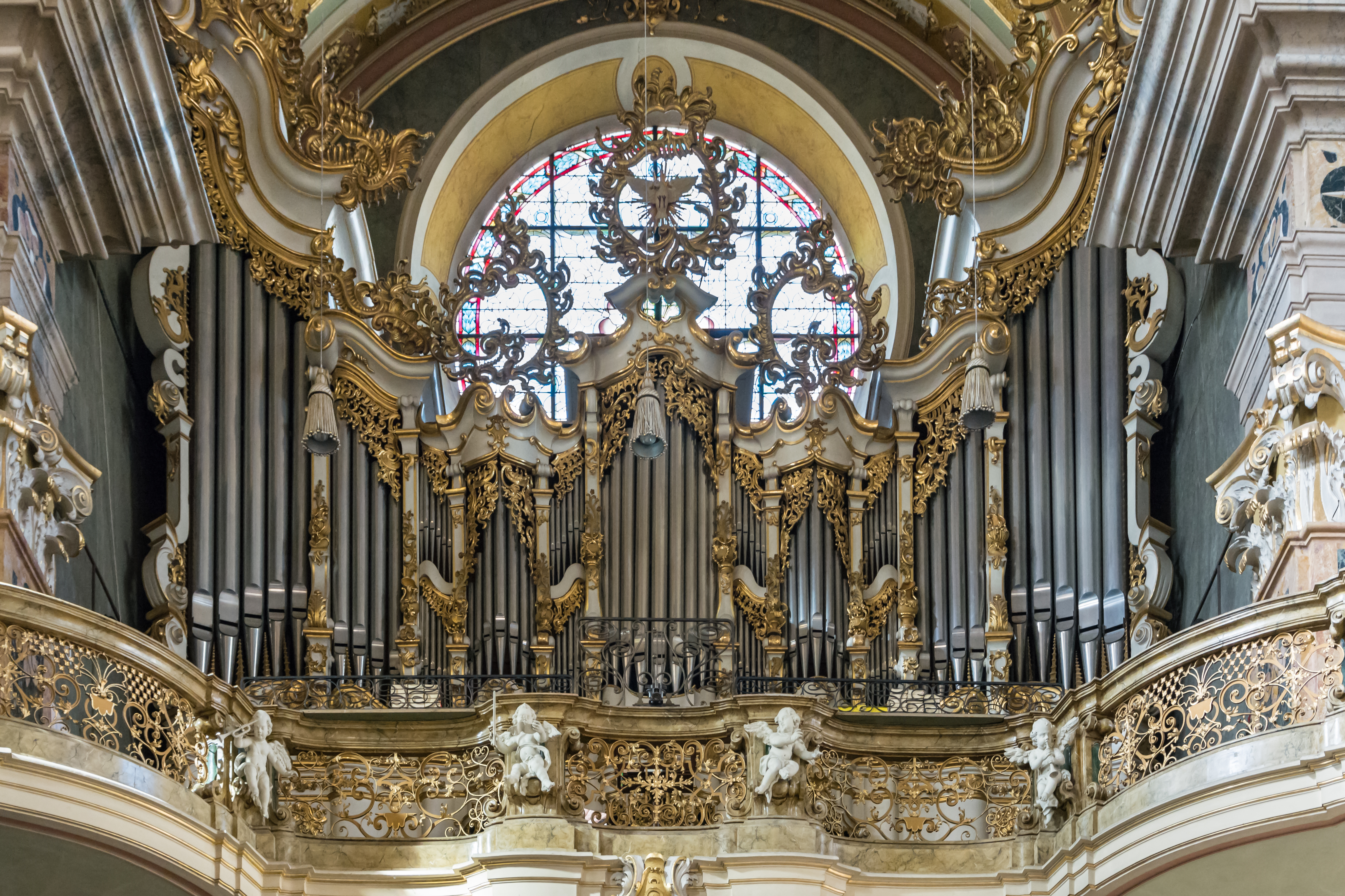 Main organ of Brixen Cathedral by Johann Pirchner (1980) in the original case of the historic organ (1756-58) by Augustin Simnacher